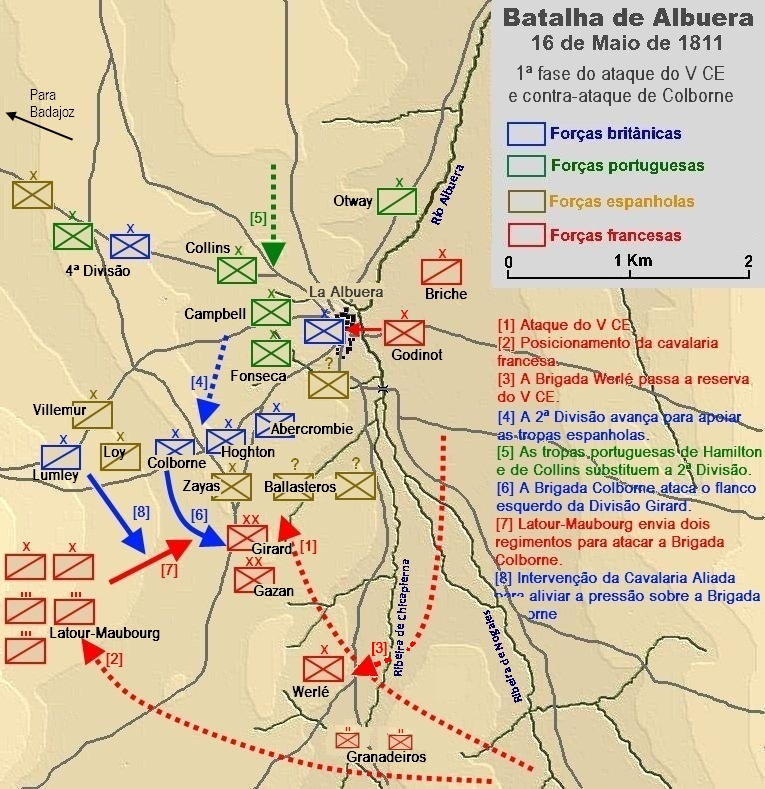 Map of the Battle of Albuera (May 16, 1811) - 1st stage of the attack of V CE and counterattack Colborne